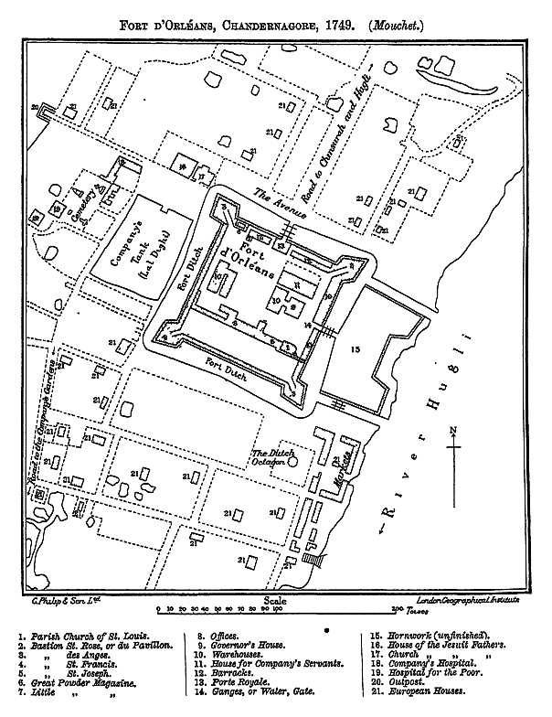 Sketch of the French settlement of Chandernagore with Fort d'Orléans, as it appeared in 1749. The fort was dismantled after the British captured the settlement during the Seven Years War.